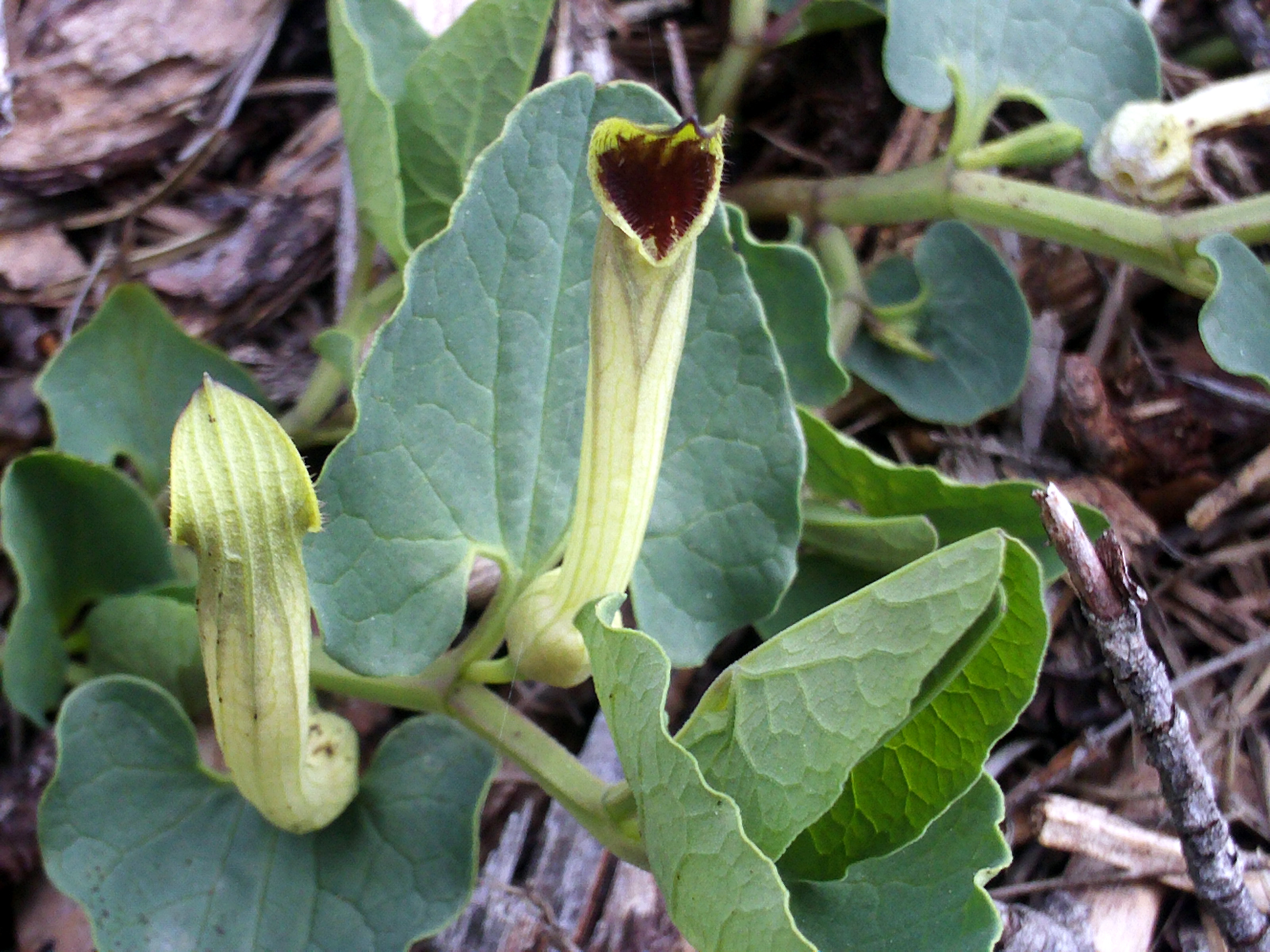 Aristolochia paucinervis flowers close up, Dehesa Boyal de Puertollano, Spain